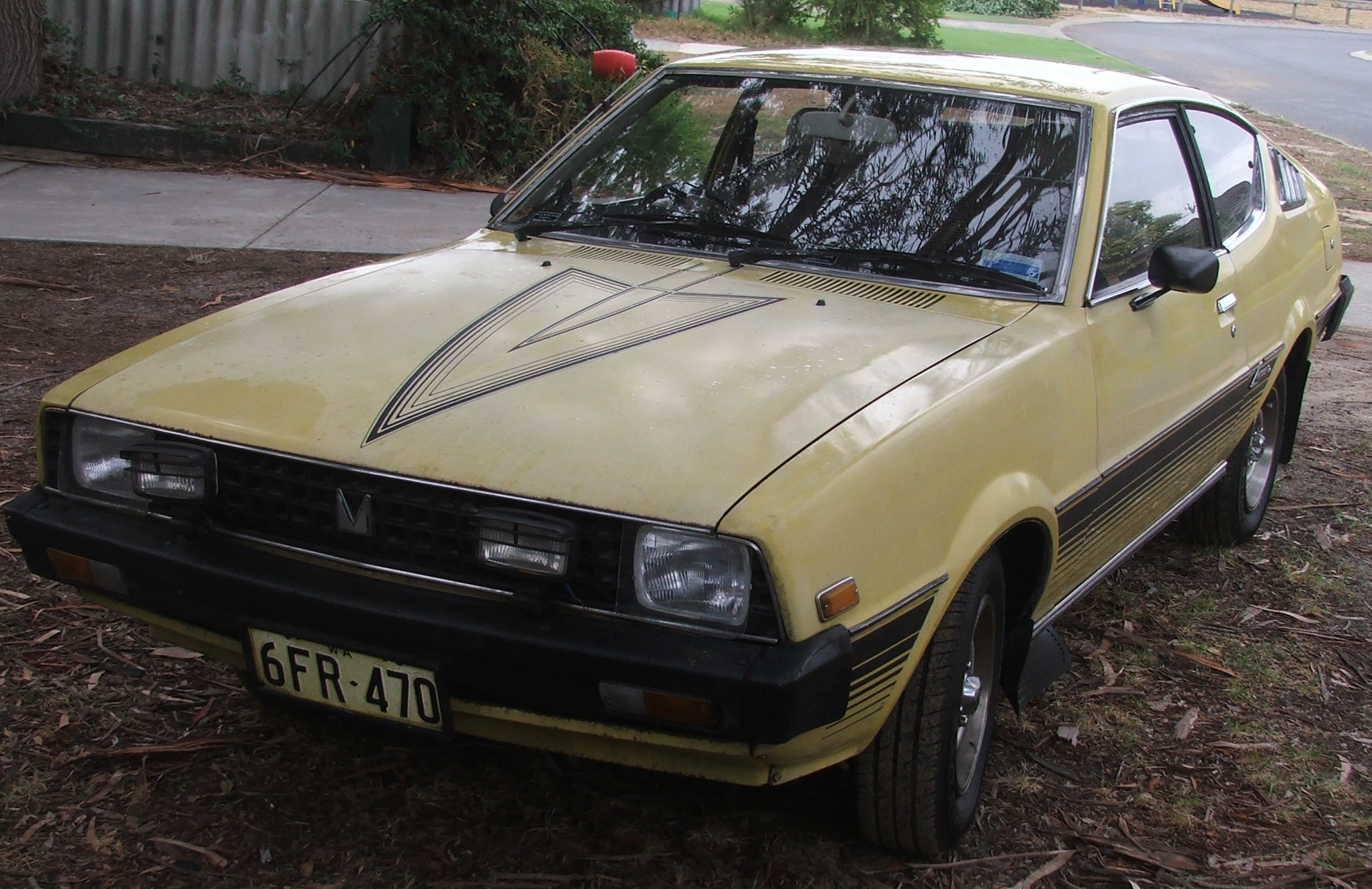 Photograph by Ross Gould (aussiblue) of his 1980 Australian LC Lancer taken by him. Free use permitted